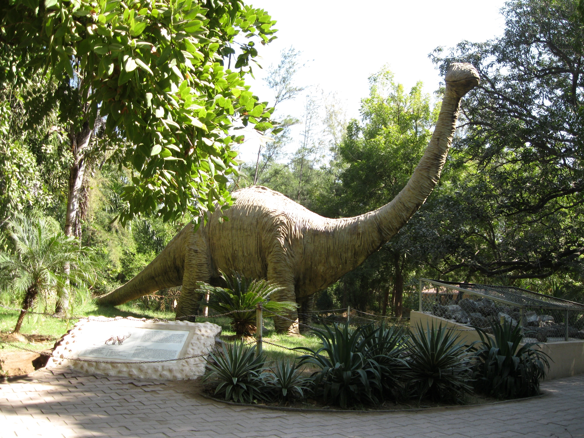 The Indroda Dinosaur and Fossil Park, or Indroda Nature Park, is located on the bank of Sabarmati river over an area of 400 hectares of land. It is considered as the second largest hatchery of dinosaur eggs in the world. The nature park is run by Gujarat Ecological Education and Research Foundation (GEER) and is the only dinosaur museum in India. The park nicknamed as 'India's Jurassic Park' consists of a zoo, botanical garden, amphitheatre and also has skeletons of many sea mammals which include that of the blue whale. It also has an interpretation centre and provides facilities for camping too.